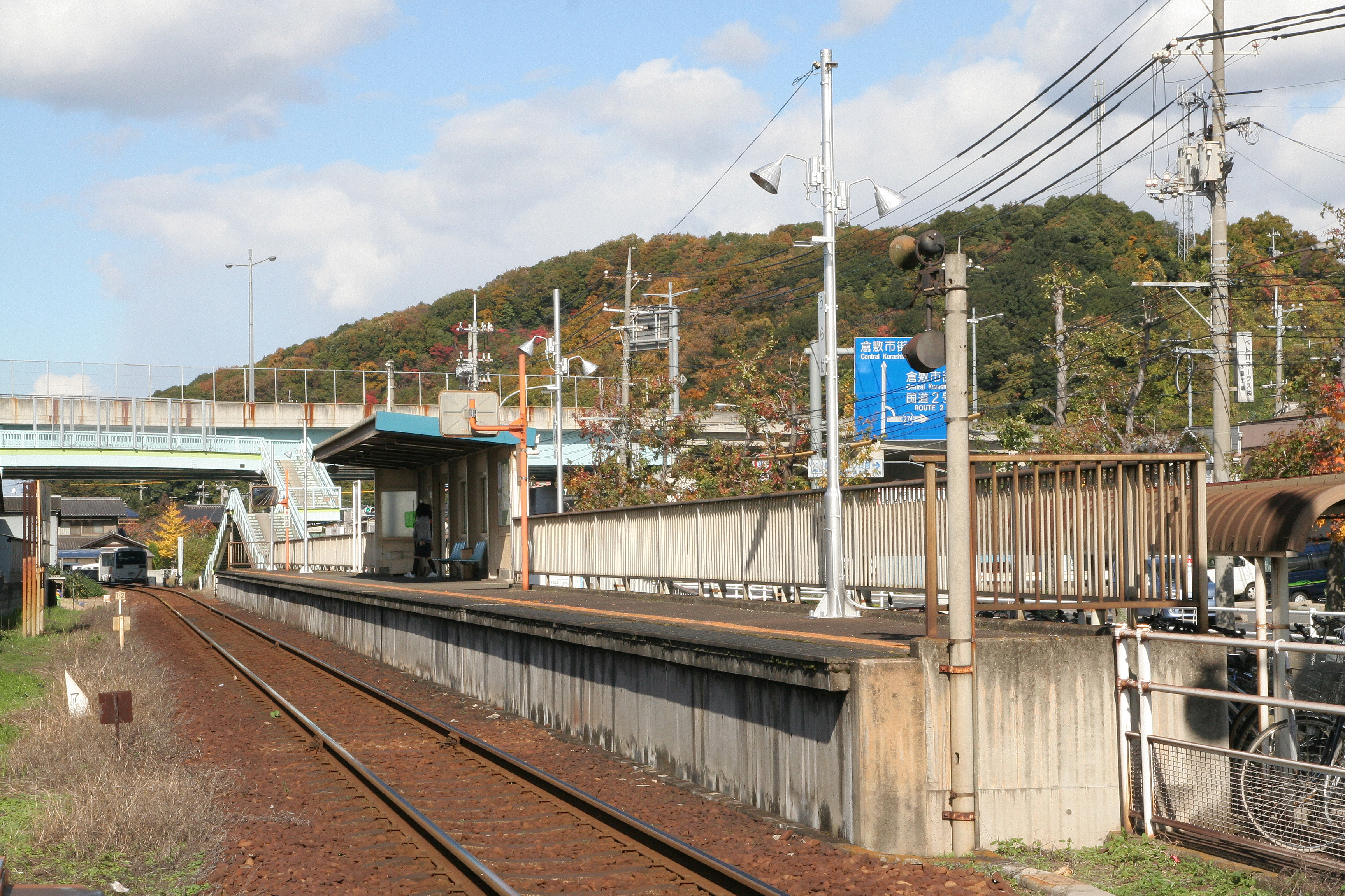 Mizushima Rinkai Railway Mizushima Main Line Urada station enclosure